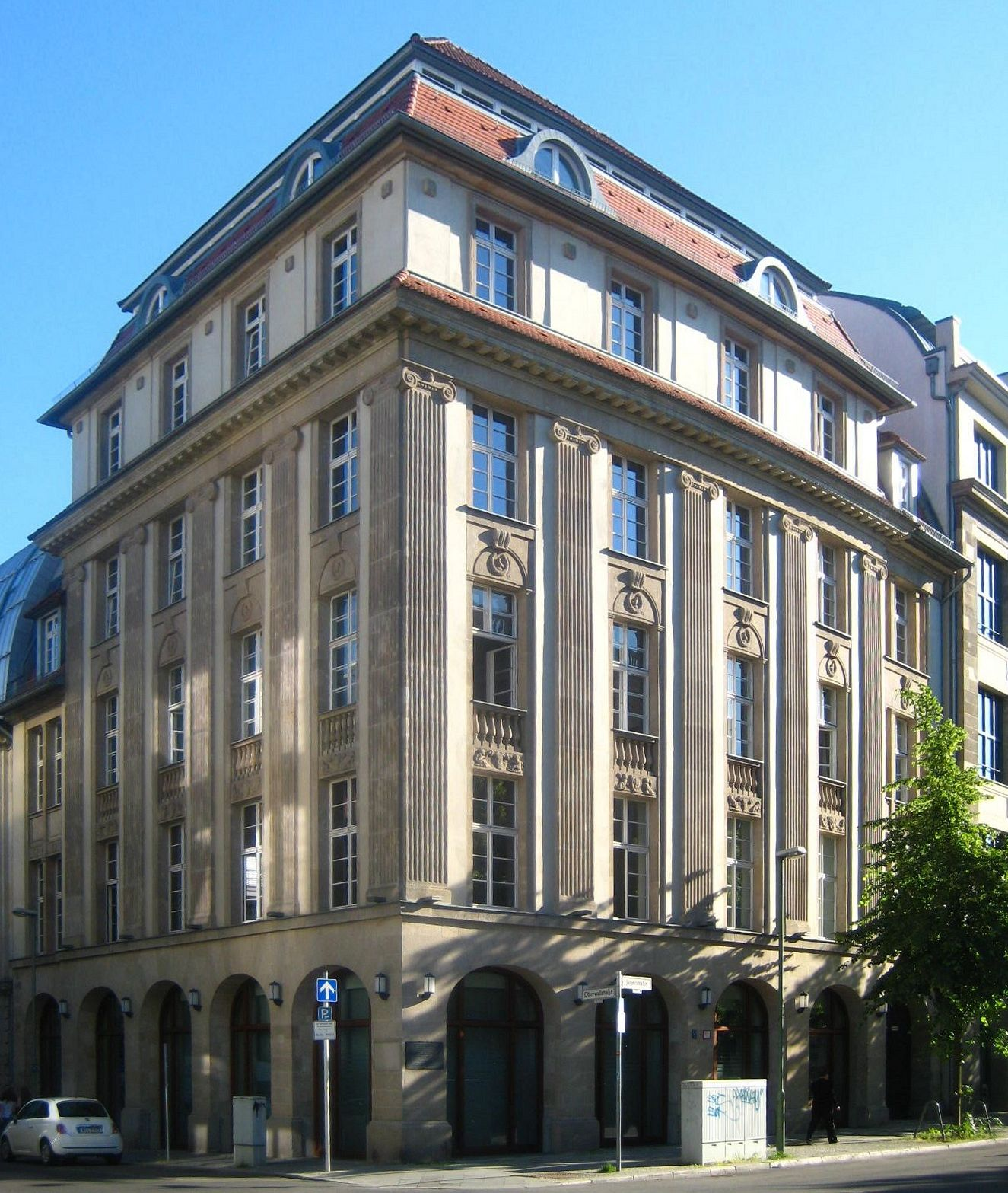 Annex building of the former clothing store Manheimer at Jägerstraße No. 33 (on the right), corner of Oberwallstraße, in Berlin-Mitte. It was built from 1907 to 1908 as annex to the company's seat on Oberwallstraße to a design ba Eugen Schmohl and Richard Salinger. The sculptural work is by Josef Rauch. The building has been designated as a historic landmark.